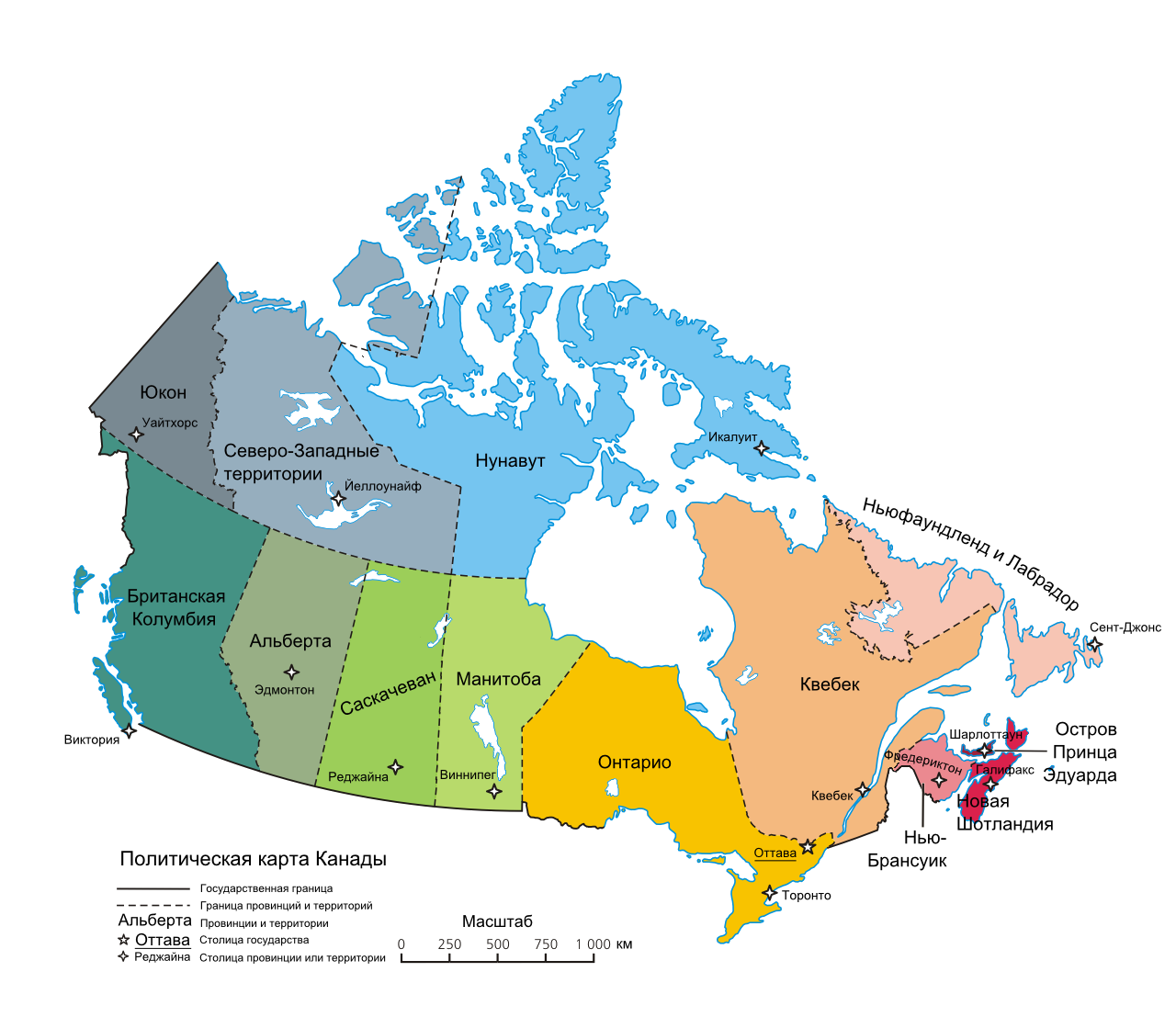 Political map of Canada in Russian.